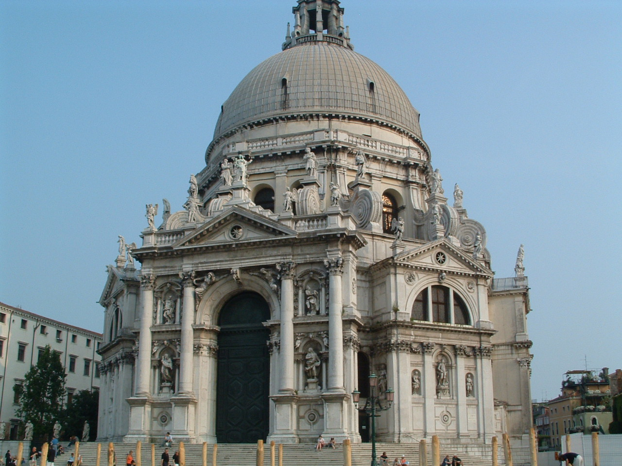 The Basilica di Santa Maria della Salute from the Grand Canal. Taken by User:Reywas92.